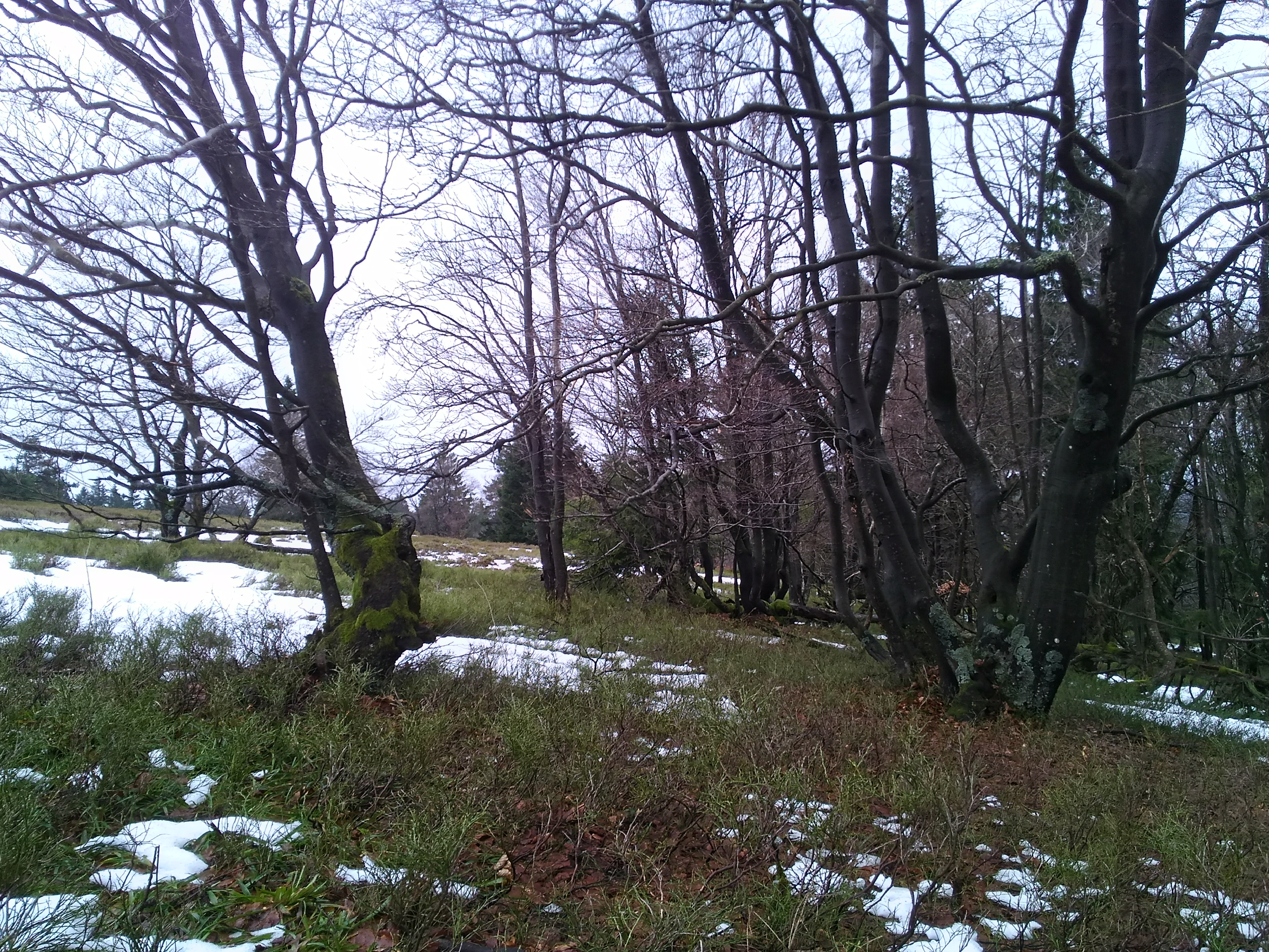 Kampfbuchenwald, nördlich des Gipfels des Kahlen Asten